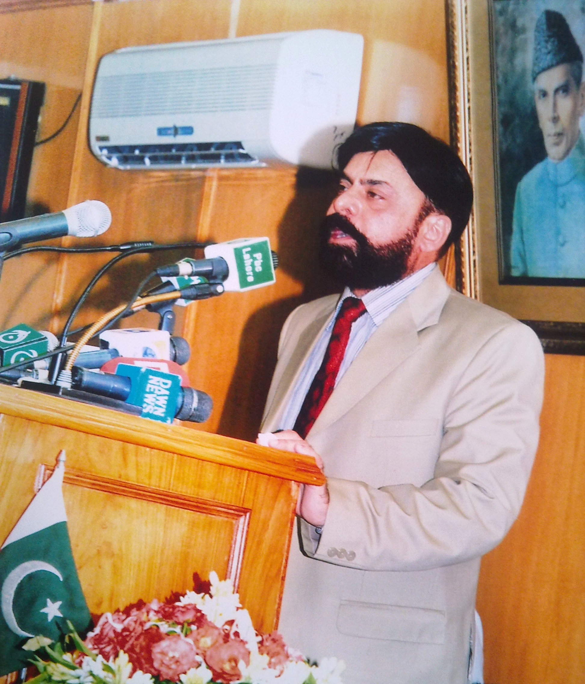 Rana Muhammad Akram Khan adressing Media and Lawyers in Punjab Bar Council Lahore